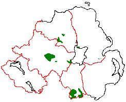 This is my image - I made it. It is not currently available anywhere else on online. It is entirely my work, and I hereby give permission for anyone to use it.